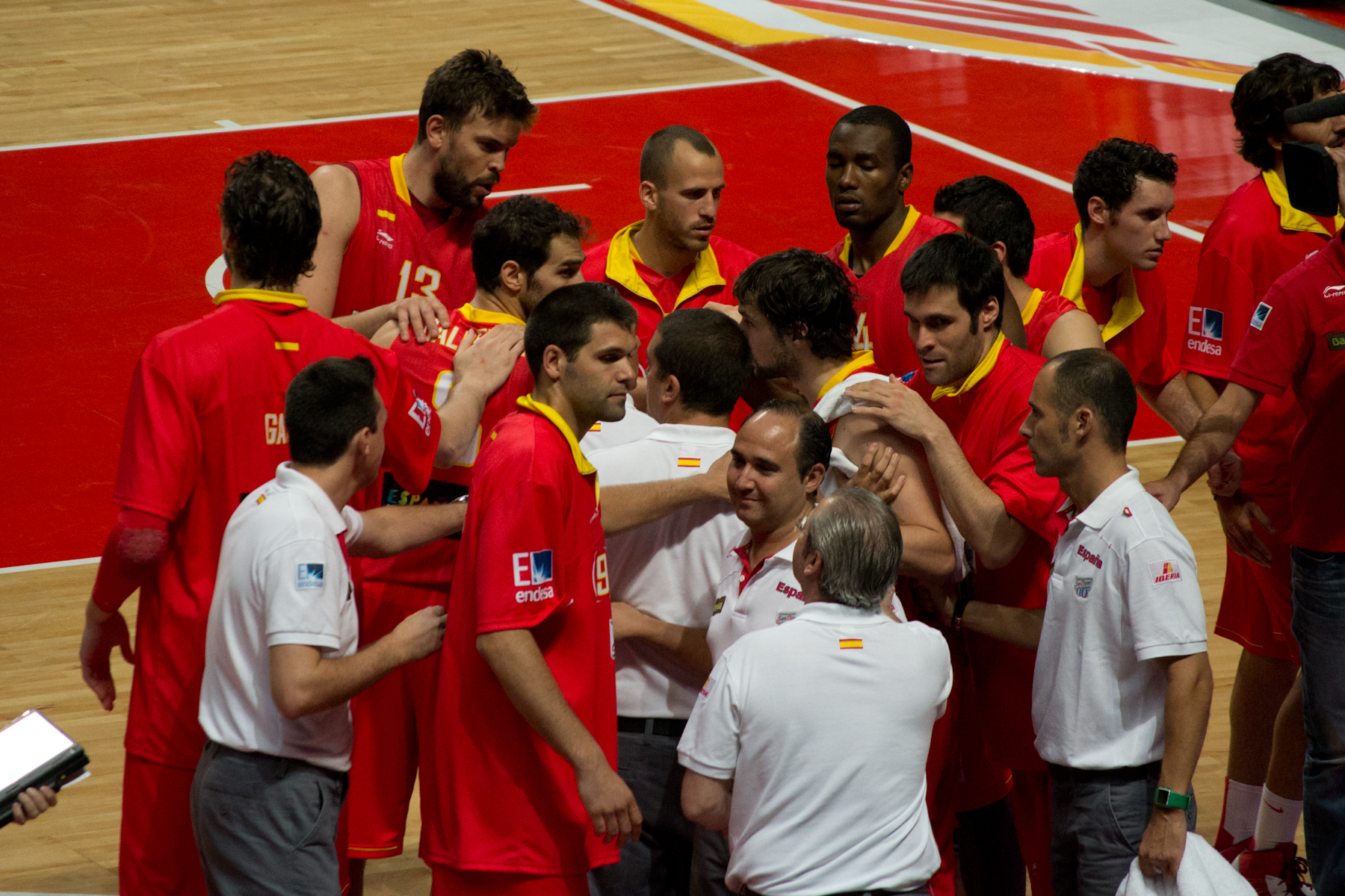 Spain national basketball team.